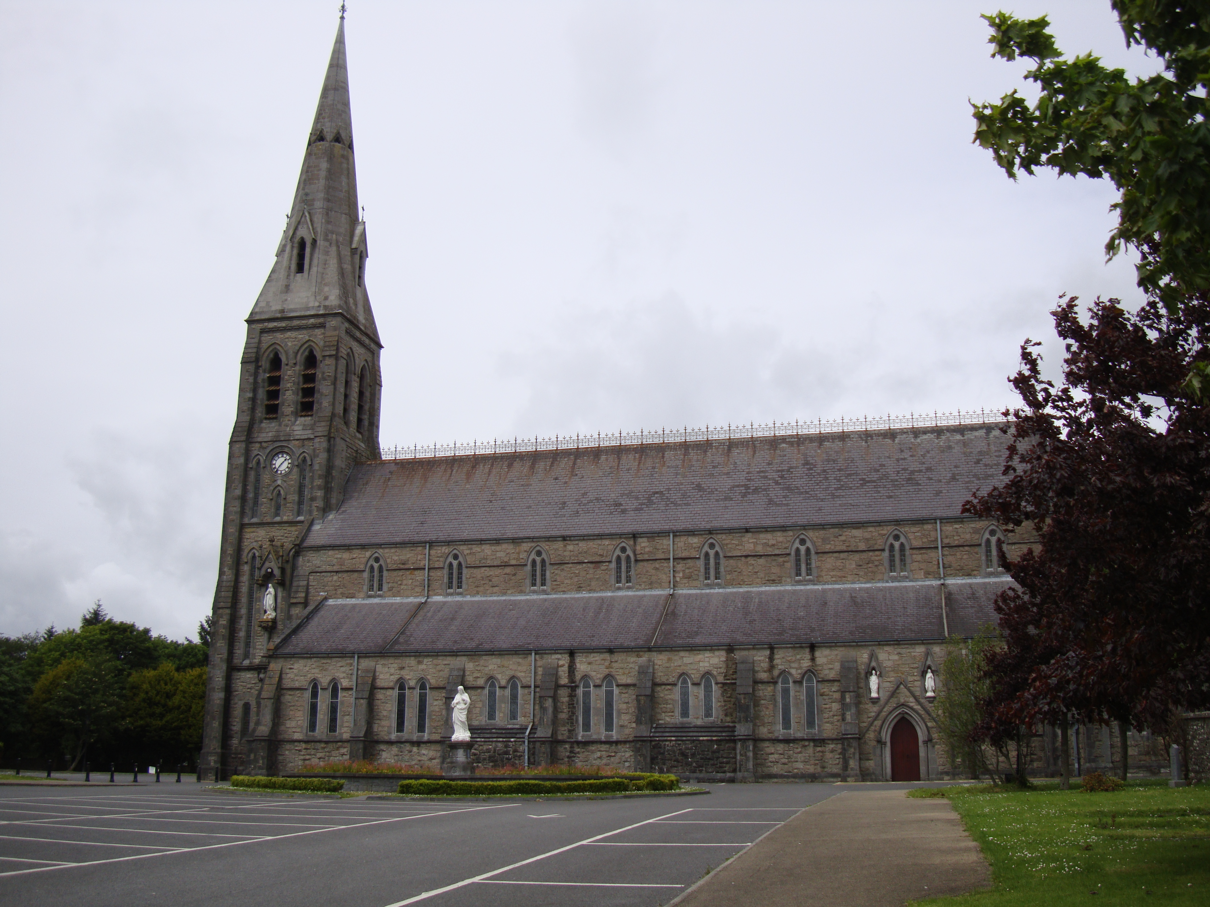 Photograph of Ballaghaderreen Cathedral, Co. Roscommon, Ireland